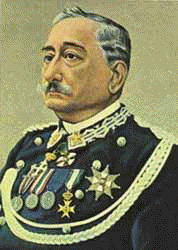 Giuseppe Perrucchetti (1839-1916), founder of Italian toops "Alpini"